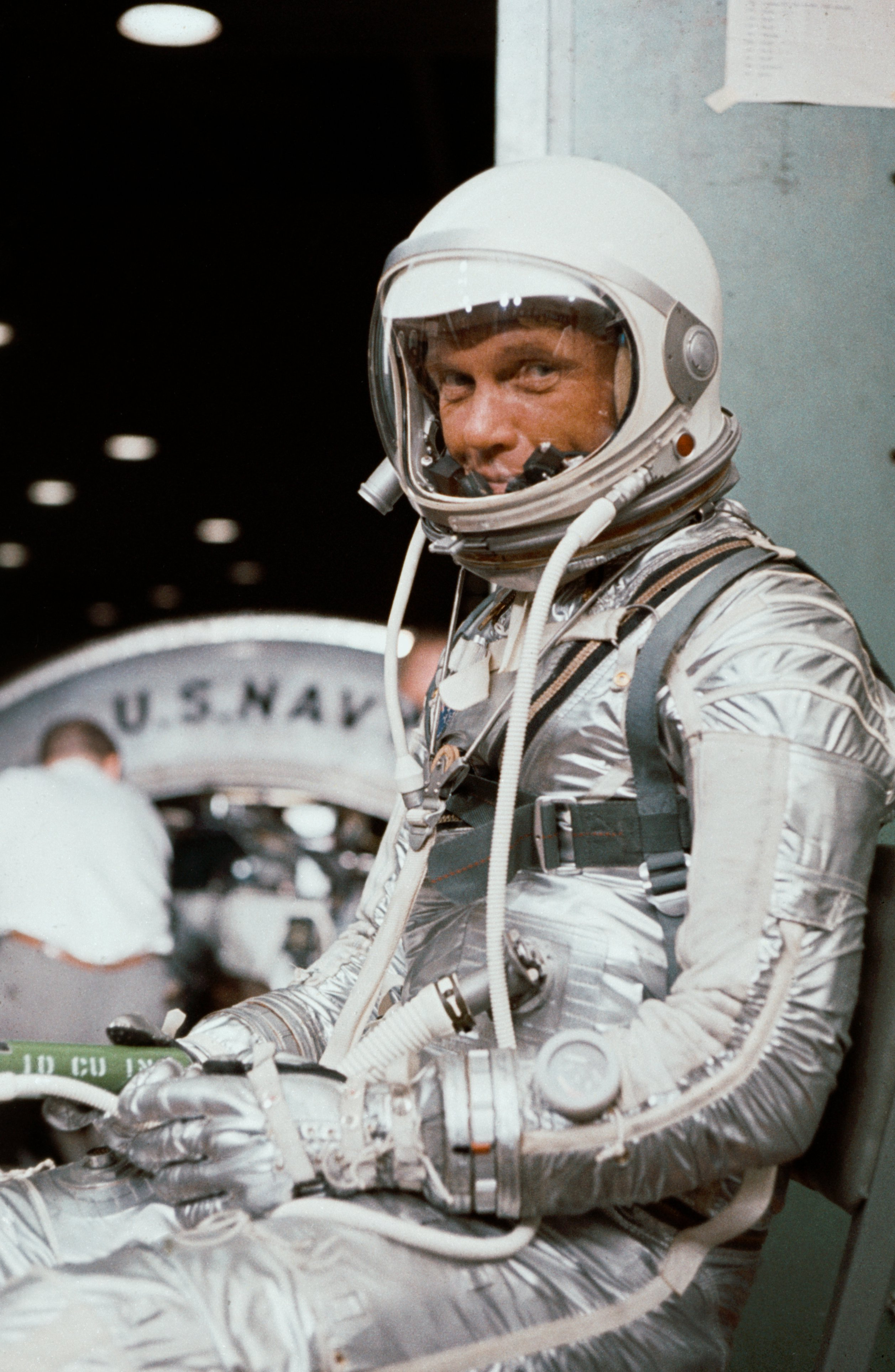 Image ID: S64-36911